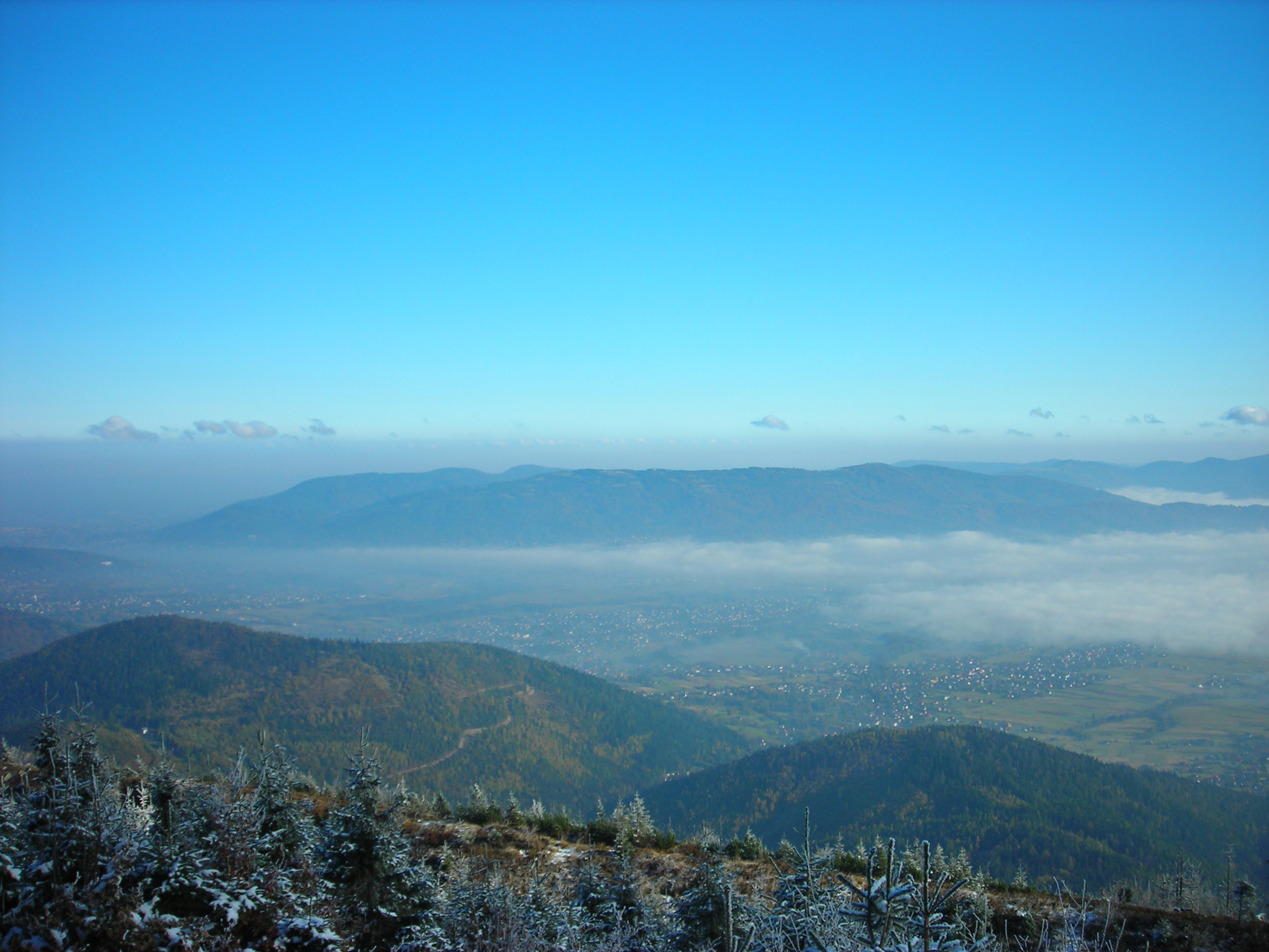 A view on Szczyrk (Silesia, Poland) from Skrzyczne